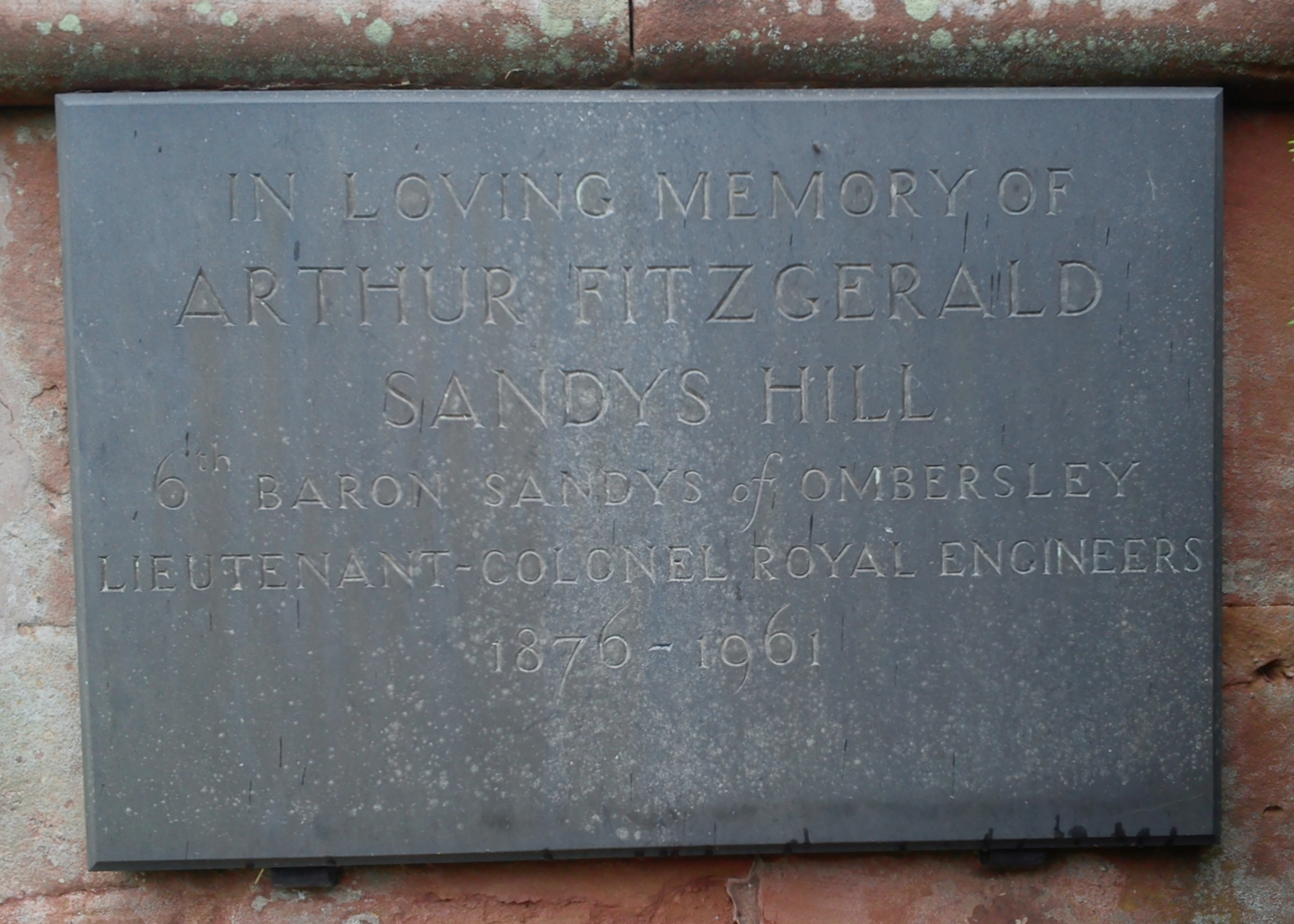 Churchyard of Saint Andrew's church, Ombersley, Worcestershire: tablet to Arthur Fitzgerald Sandys Hill, 6th Baron Sandys (1876–1961) on the ourside wall of the mausoleum